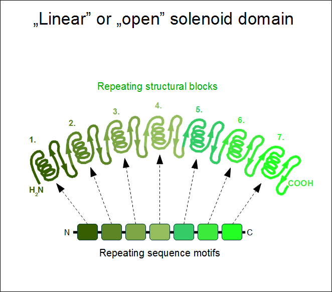 Schematic of a linear (or open) solenoid protein domain